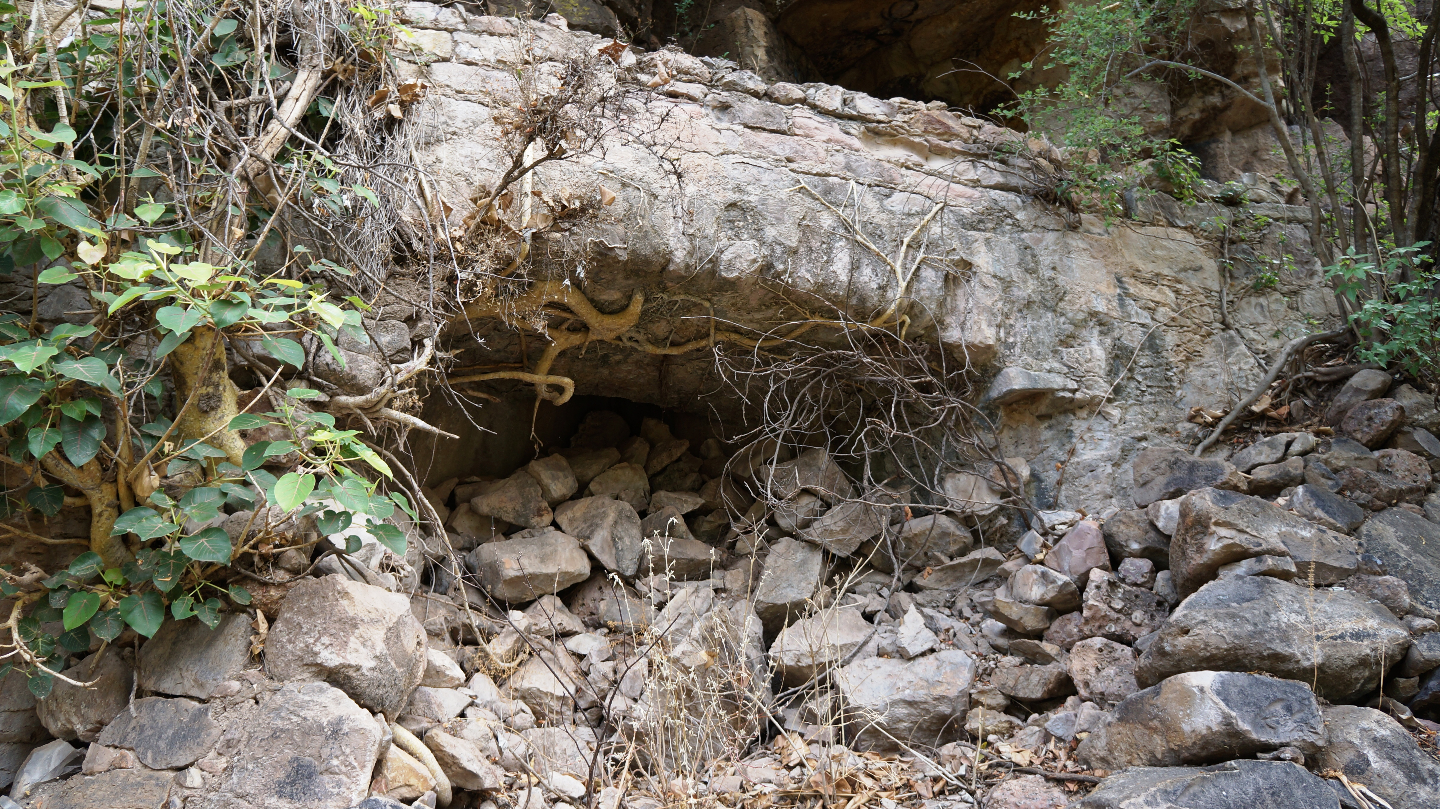 Colonial aqueduct in the north of Jalisco, Mexico